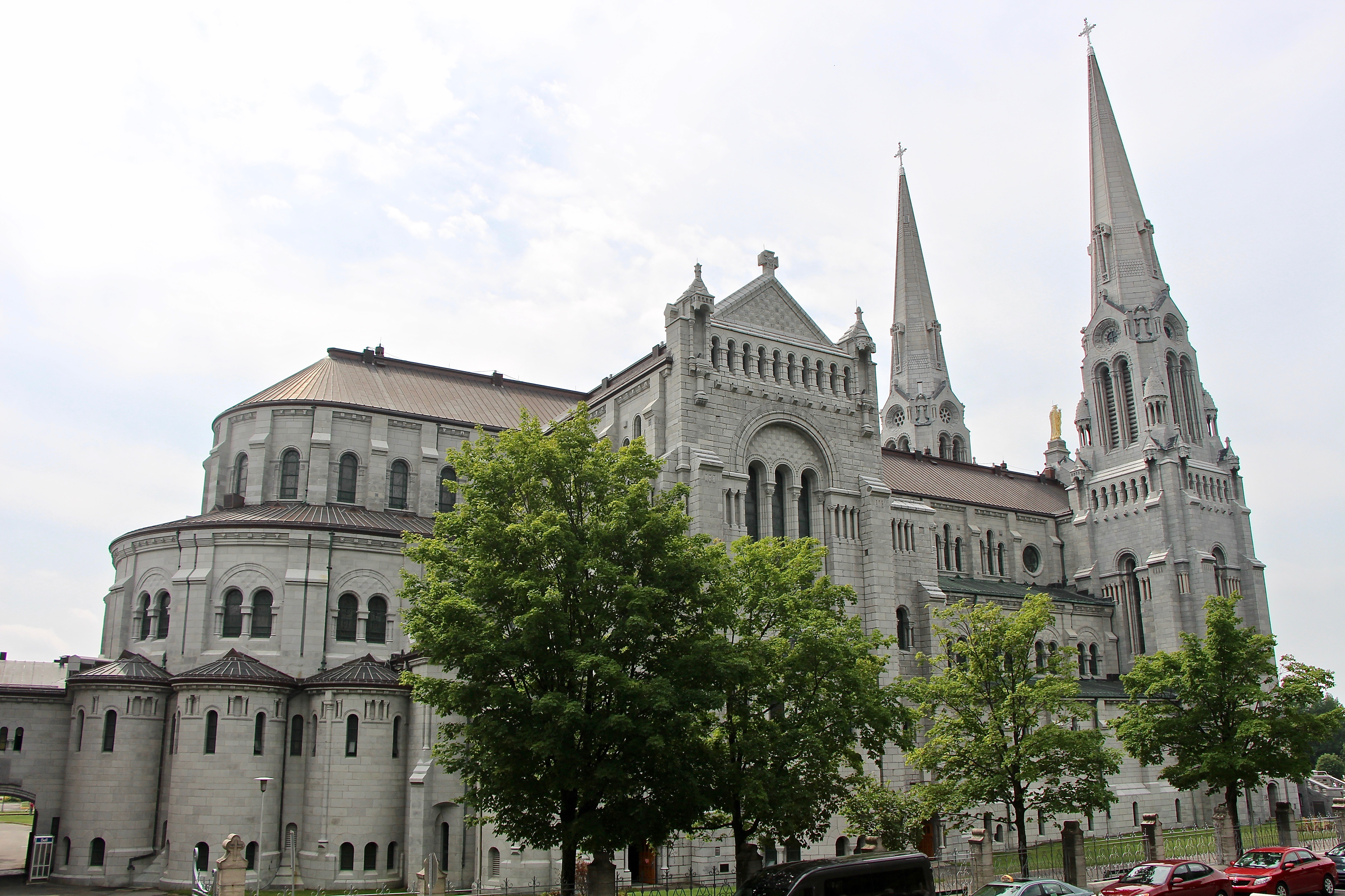 Basilica of Sainte-Anne-de-Beaupré, 10018 Royale Avenue, Sainte-Anne-de-Beaupré, Quebec, Canada, G0A 3C0.